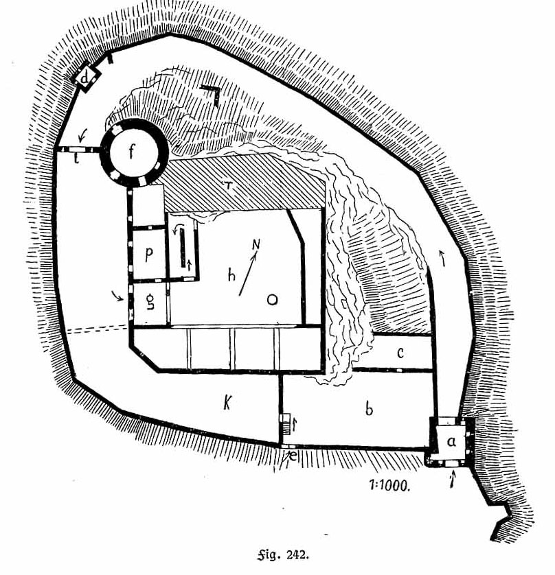 Ground-plan by Piper